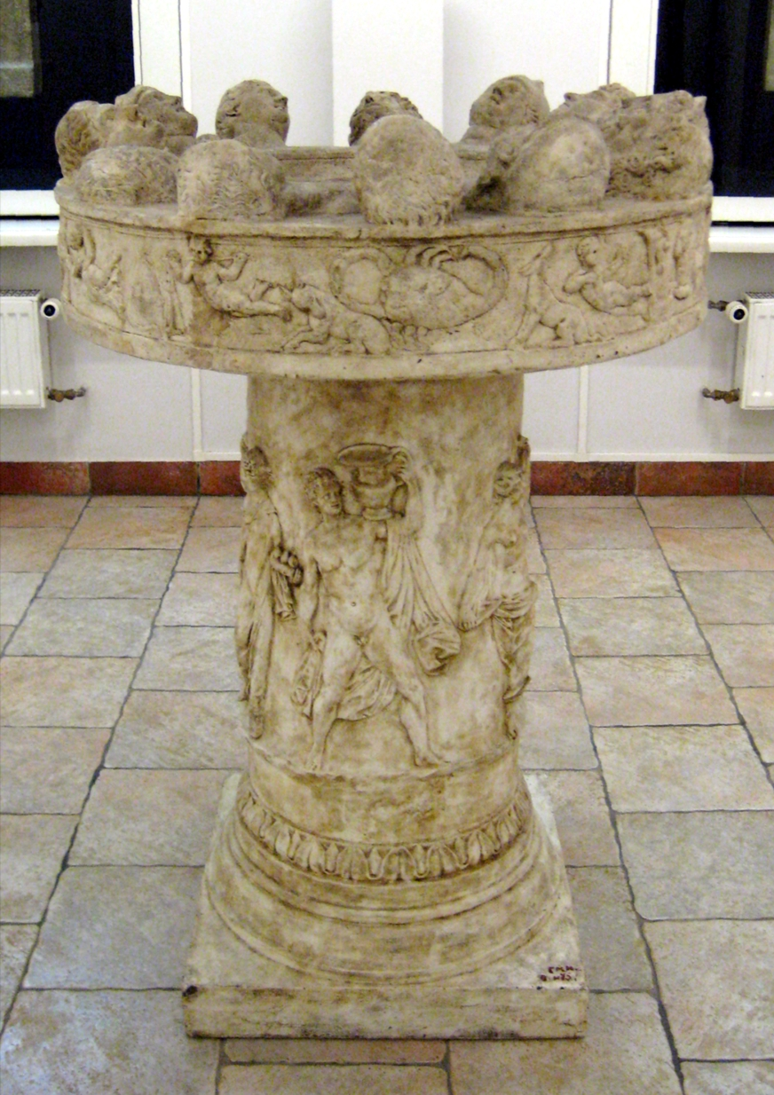 Altar of the twelve gods. Original in Louvre, cast in Pushkin museum. Use unknown: maybe the brink of a well or an Zodiac altar. The object represents the twelve gods of the Roman pantheon, each identified by an attribute: Venus and Mars linked by Cupid, Jupiter and a lightning bolt, Minerva wearing a helmet, Apollo, Juno and her sceptre, Neptune and his trident, Vulcan and his sceptre, Mercury and his caduceus, Vesta, Diana and her quiver and Ceres. Marble, found in Gabii (Italy), 1st century CE.